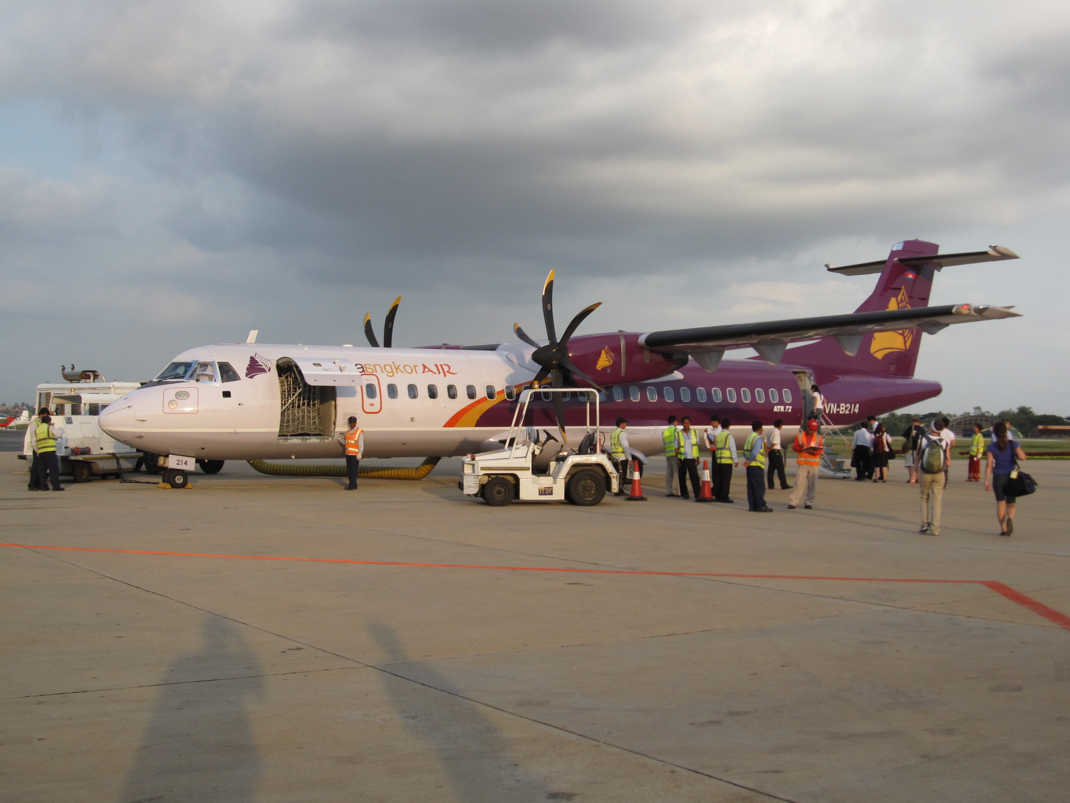 Cambodia Angkor Air at Phnom Phen International Airport.